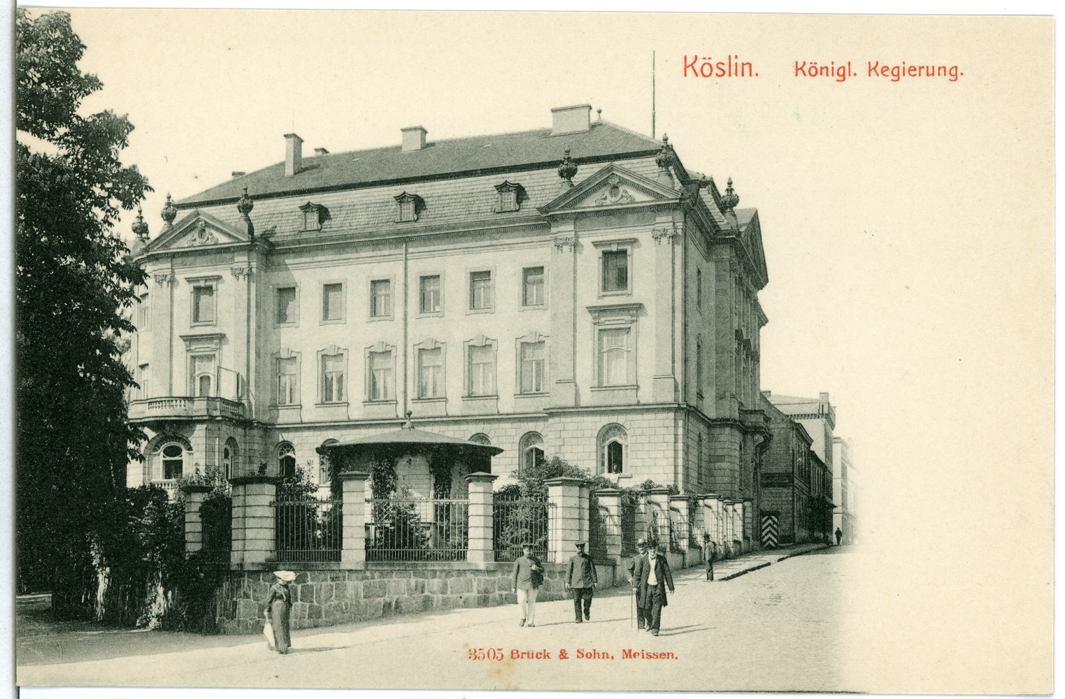 This postcard is from publisher Brück & Sohn in Meißen ( This postcard has a unique number 03505 and is available in a higher resolution at the publisher. This images was uploaded in a cooperation project between Wikipedians and the publisher.